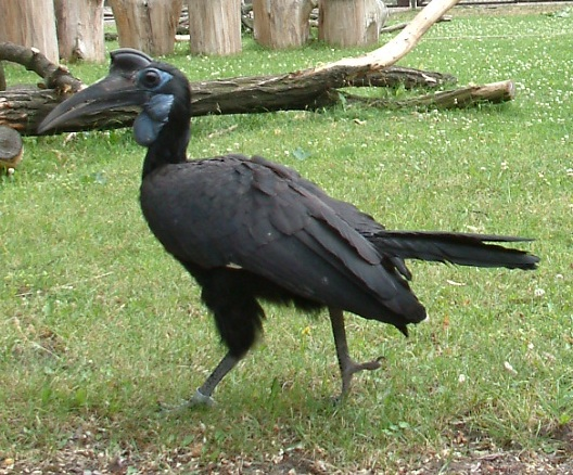 A female Abyssinian Ground-hornbill or Northern Ground-hornbill.